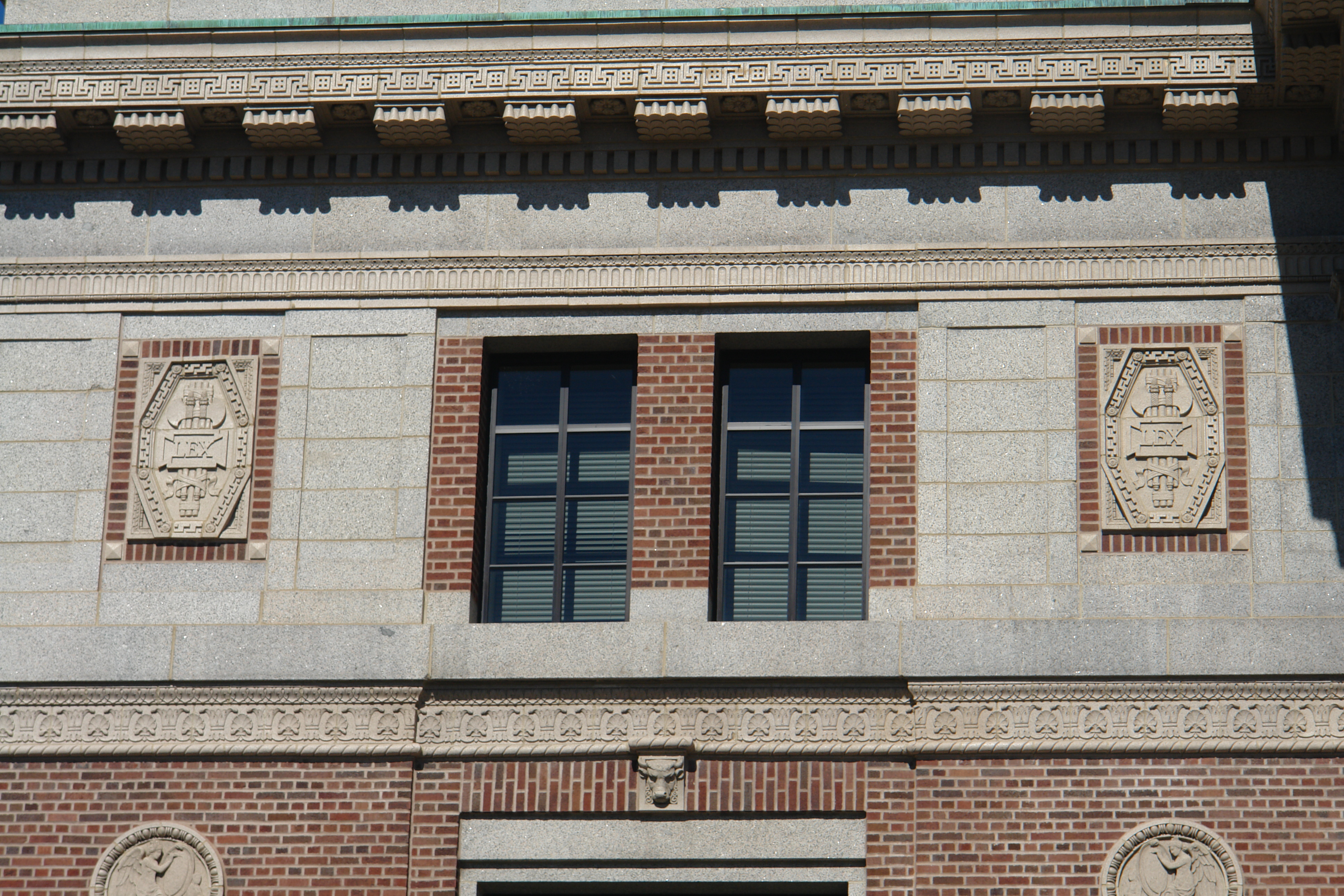 Terra cotta panels decorate the cornice, frieze, and belt course.